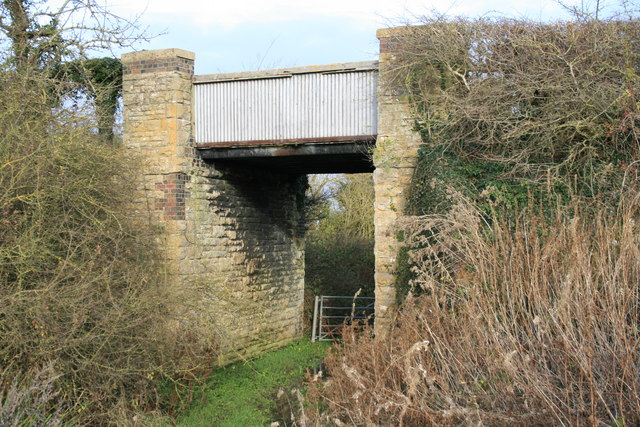 Bridge over old railway line The road bridge over the now defunct Lechlade & Fairford branch line on the South Eastern edge of Langford. I took this standing on the site of the now demolished Langford station.